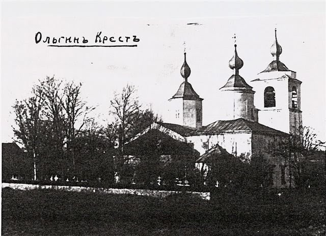 Church were destroyed by German soldiers in 1944. See ruwiki Ольгин Крест